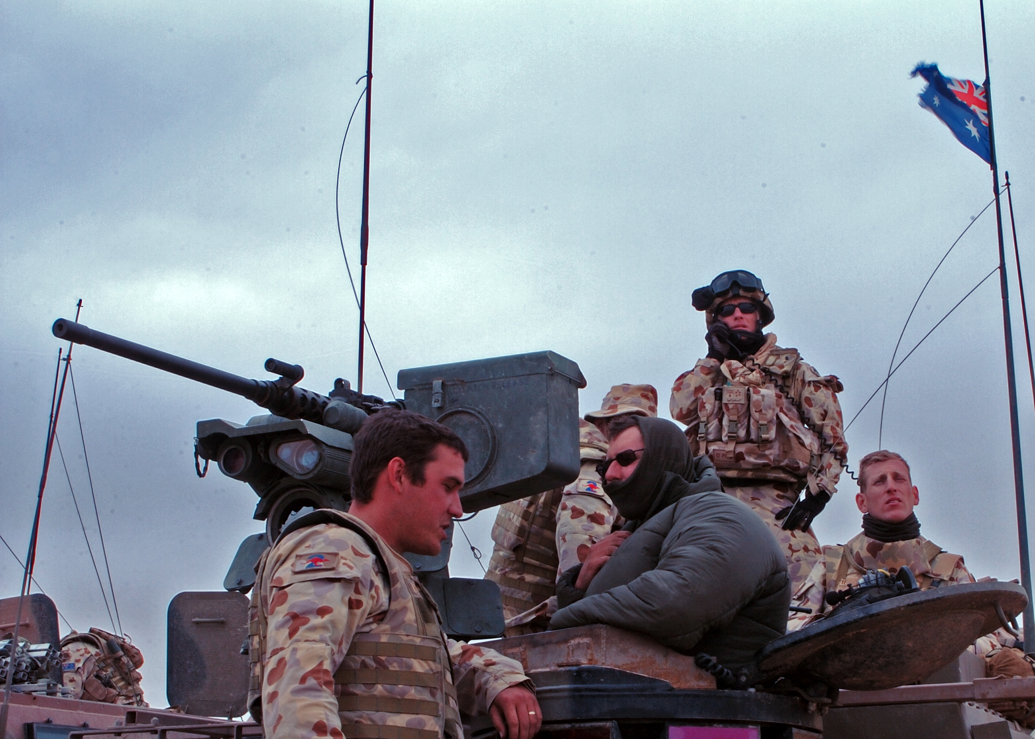 Australian Capt. Paul Manoel talks to an American Air Force C-130 aircraft while coordinating the airdrop of supplies. His soldiers watch and wait for the cargo to land before embarking on the recovery.